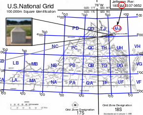 This shows USNG 100 km grid squares (the 2nd of 3 parts of a full USNG reference) are laid out with 2-letter designations, in the vicinity of the example.